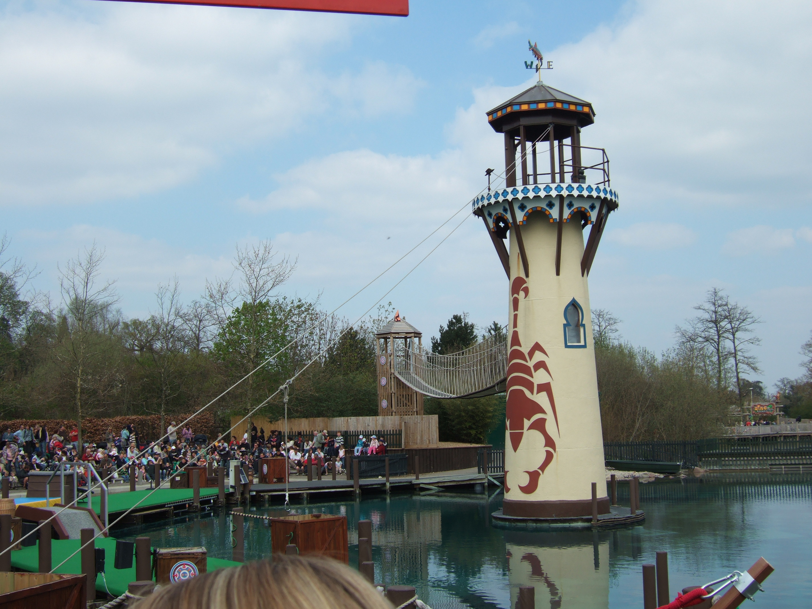 Lego City Harbour and Lighthouse, Legoland Windsor, Berkshire, UK.